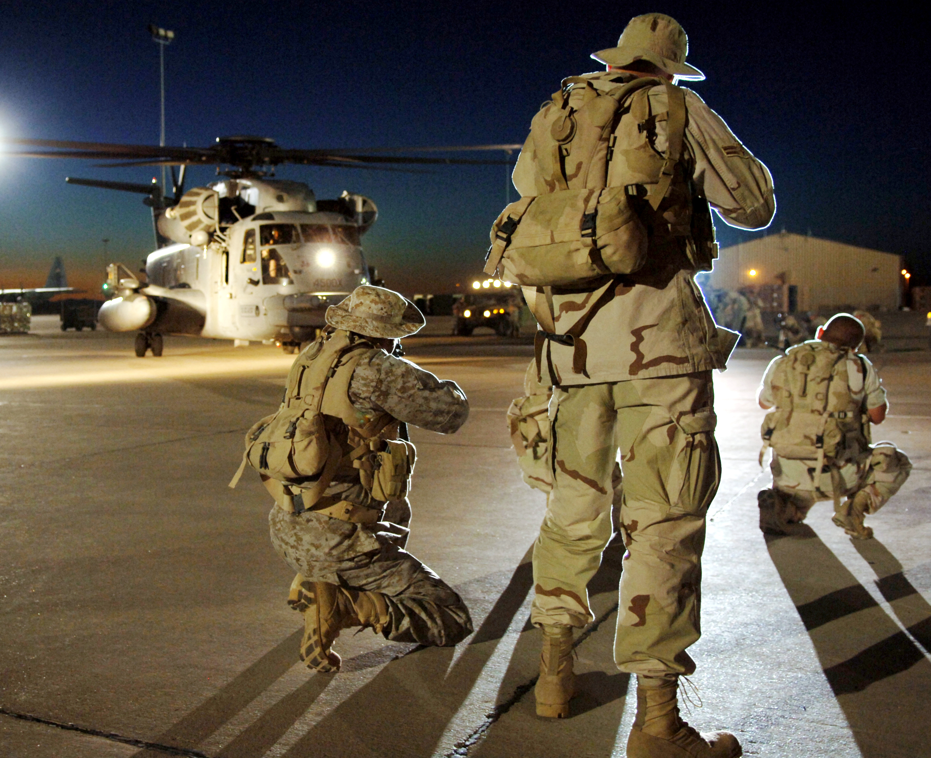 Airmen filling the roles of extras provide security against an attacker while on the set of the movie “Transformers” at Holloman Air Force Base, N.M. on Tuesday, May 30, 2006. The movie is scheduled for release in June 2007. (U.S. Air Force photo/Tech. Sgt. Larry A. Simmons)